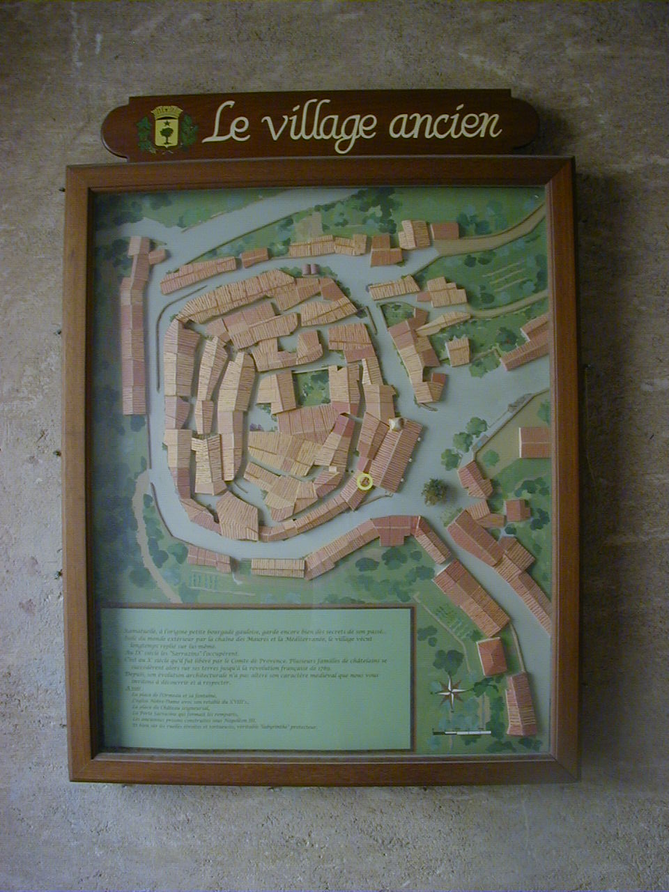 Ramatuelle. The scheme of old town